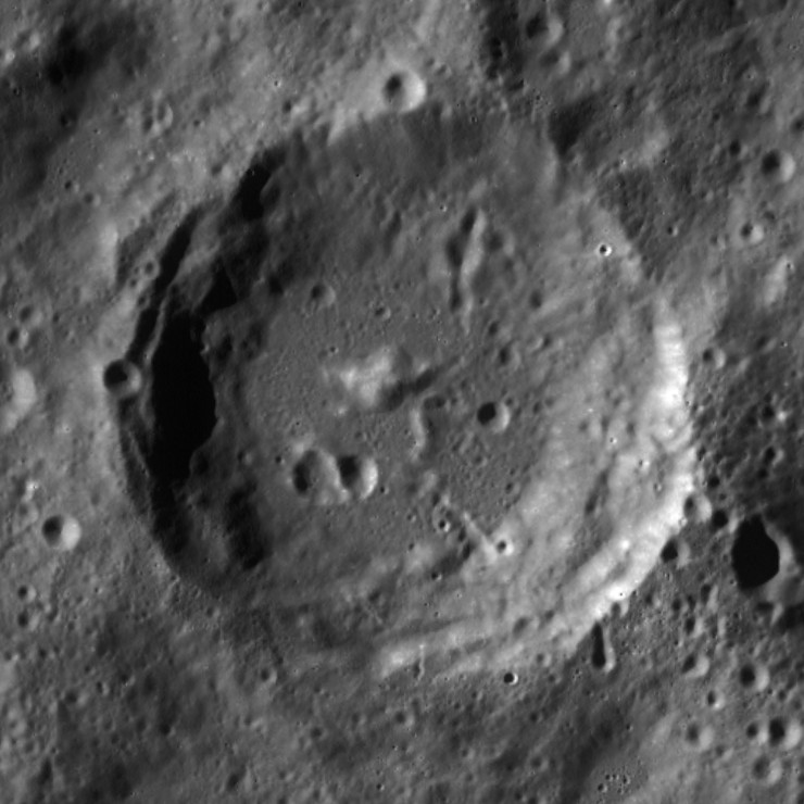 Carver crater, on the far side of the moon. LRO Wide Angle Camera mosaic.